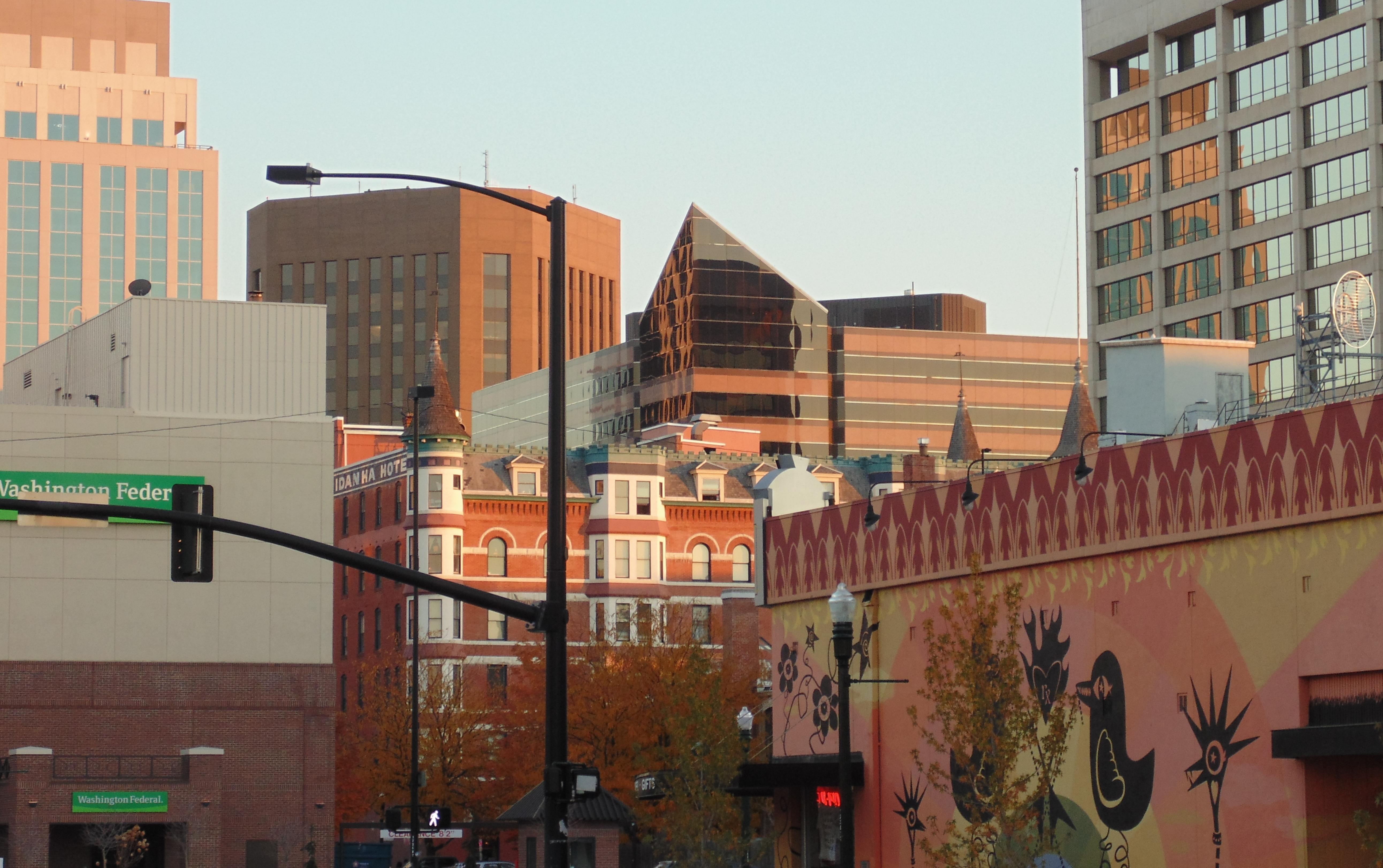 Downtown Boise Skyline - 2013